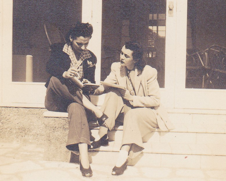 Isabel Fernández de Amado Blanco and Cuqui Ponce de León